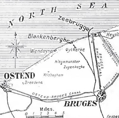 Diagram of Bruges docks, 1918